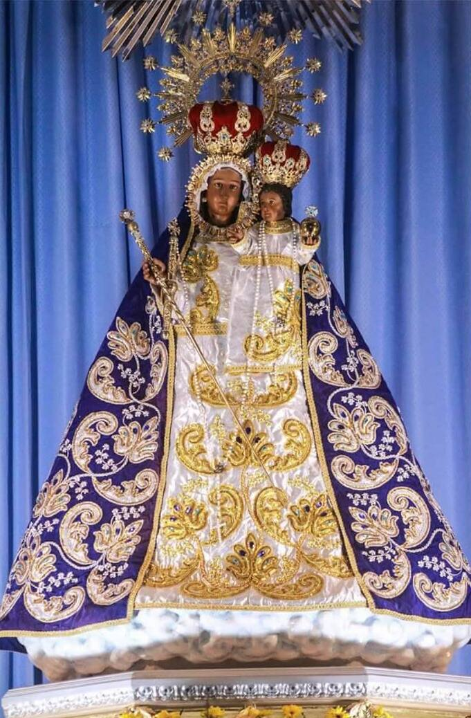 The image of the Holy Mother that appeared to the people of Orani and Samal